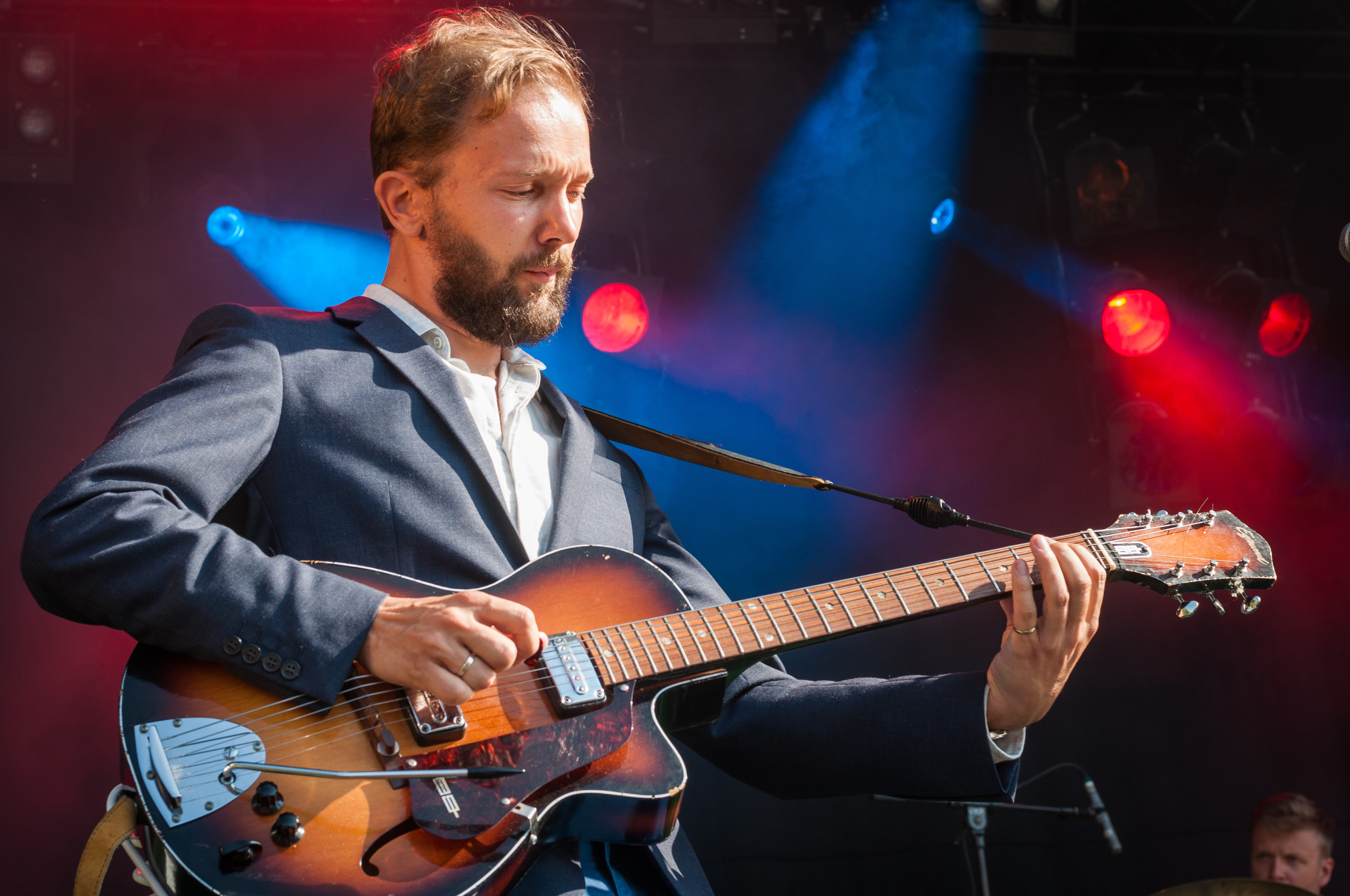 Finnish jazz band Dalindèo performing at the 2014 Ilosaarirock festival in Joensuu, Finland.